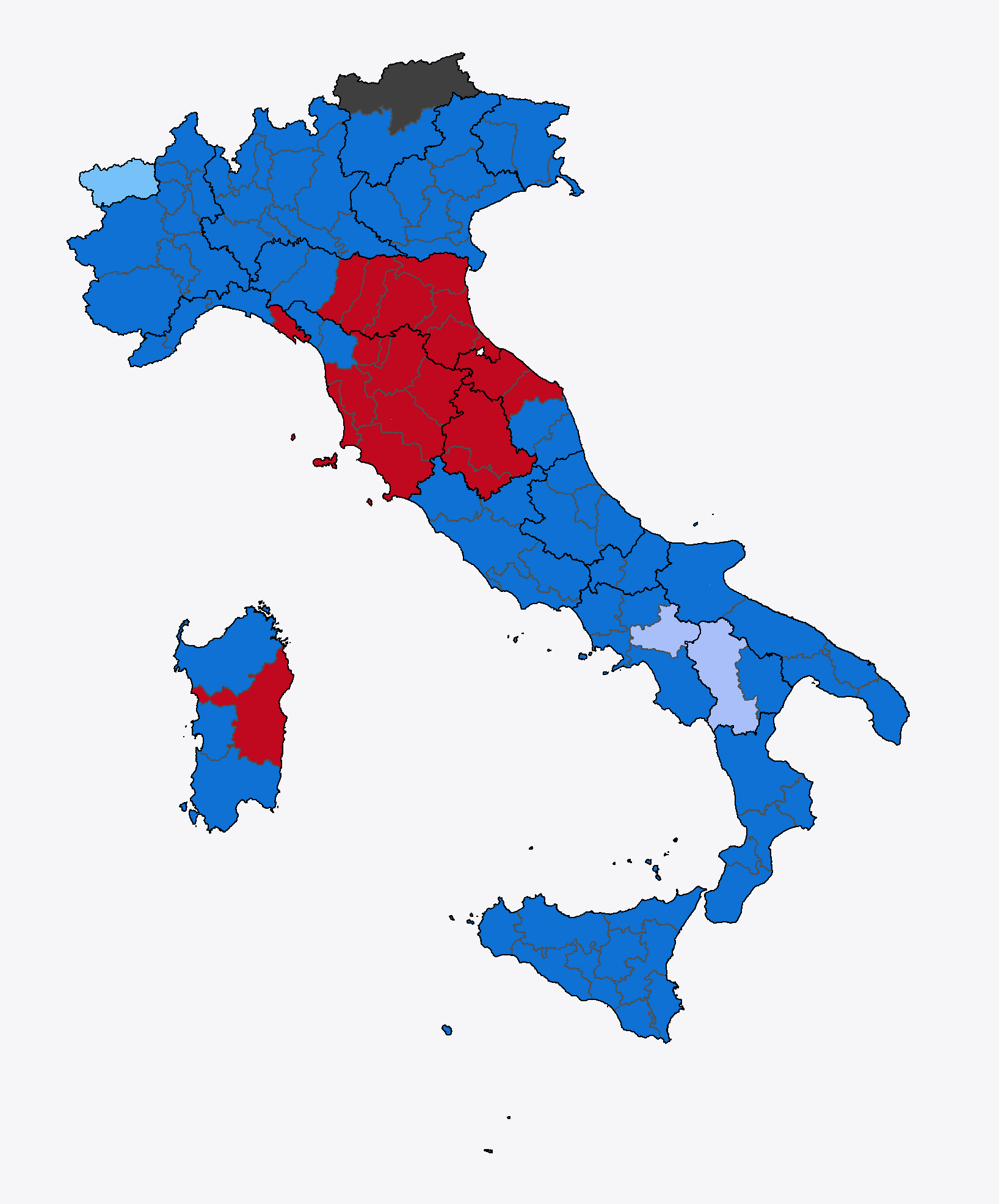 Europe